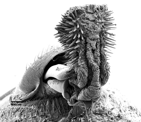 The genitalia of the Callosobruchus analis beetle. It is covered in spines from base to tip. Referenced in Rönn, J., Katvala, M. & Arnqvist, G. 2007. Coevolution between harmful male genitalia and female resistance in seed beetles. Proceedings of the National Academy of Sciences 104, 10921-1092. and Hotzy, C. & Arnqvist, G. 2009. Sperm competition favors harmful males in seed beetles. Current Biology 19, 404-407.